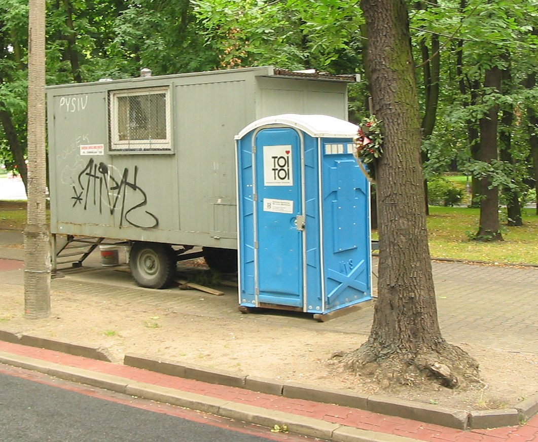 Public toilet, toitoi, Poland